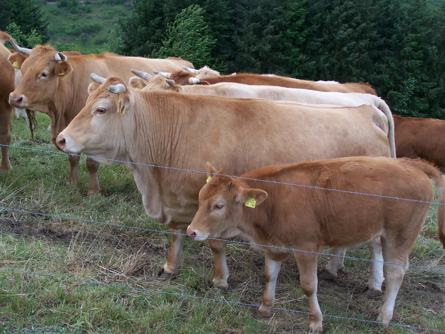 Glan Cattle, in Raumbach